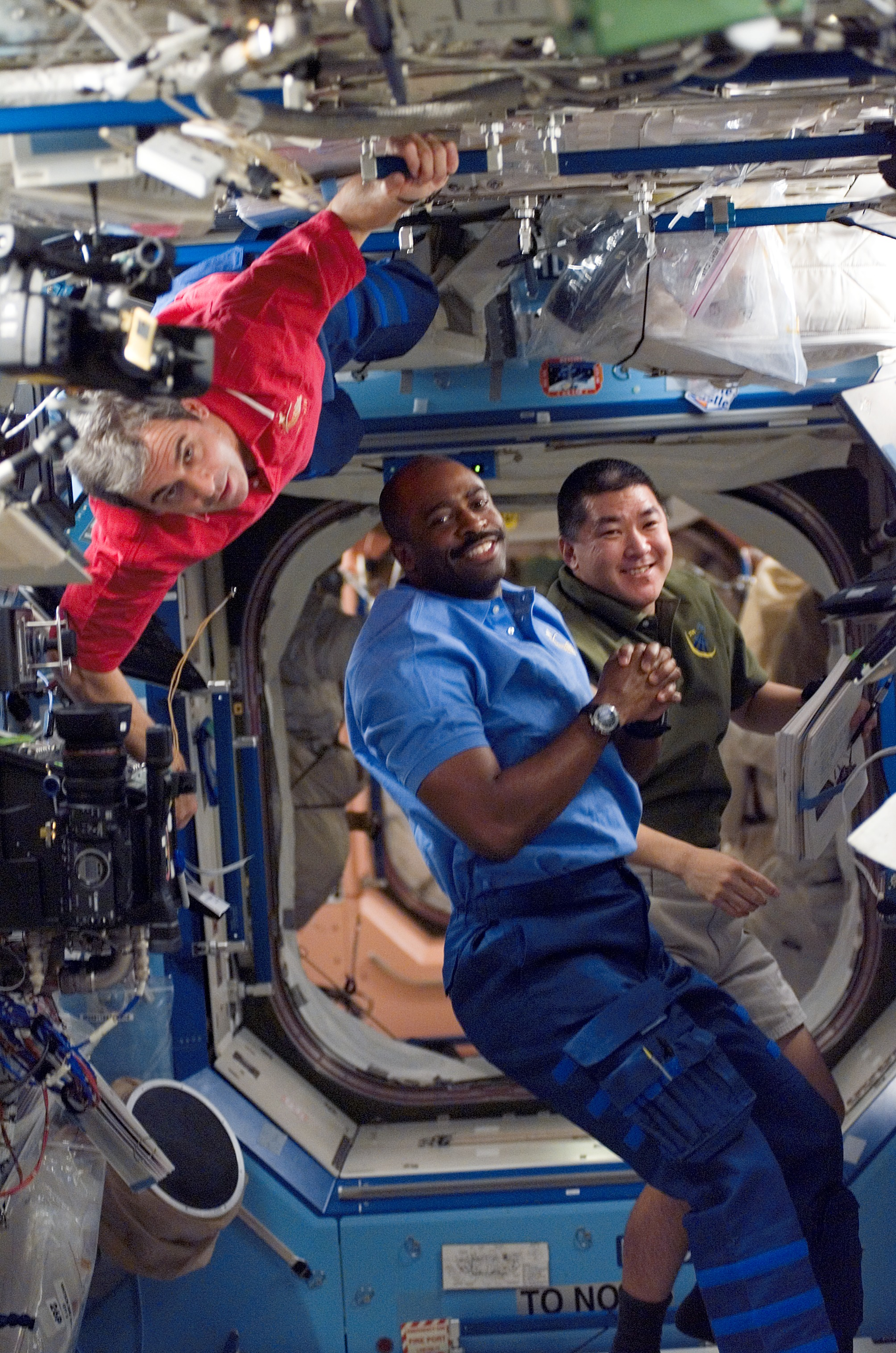 European Space Agency (ESA) astronaut Leopold Eyharts (left), Expedition 16 flight engineer; along with NASA astronauts Leland Melvin and Daniel Tani (background), both STS-122 mission specialists, are pictured while working in the Destiny laboratory of the International Space Station.